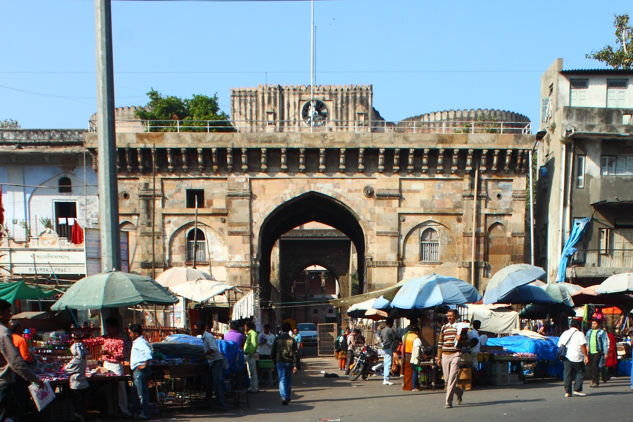 Front View of Bhadra Fort, Ahmedabad.